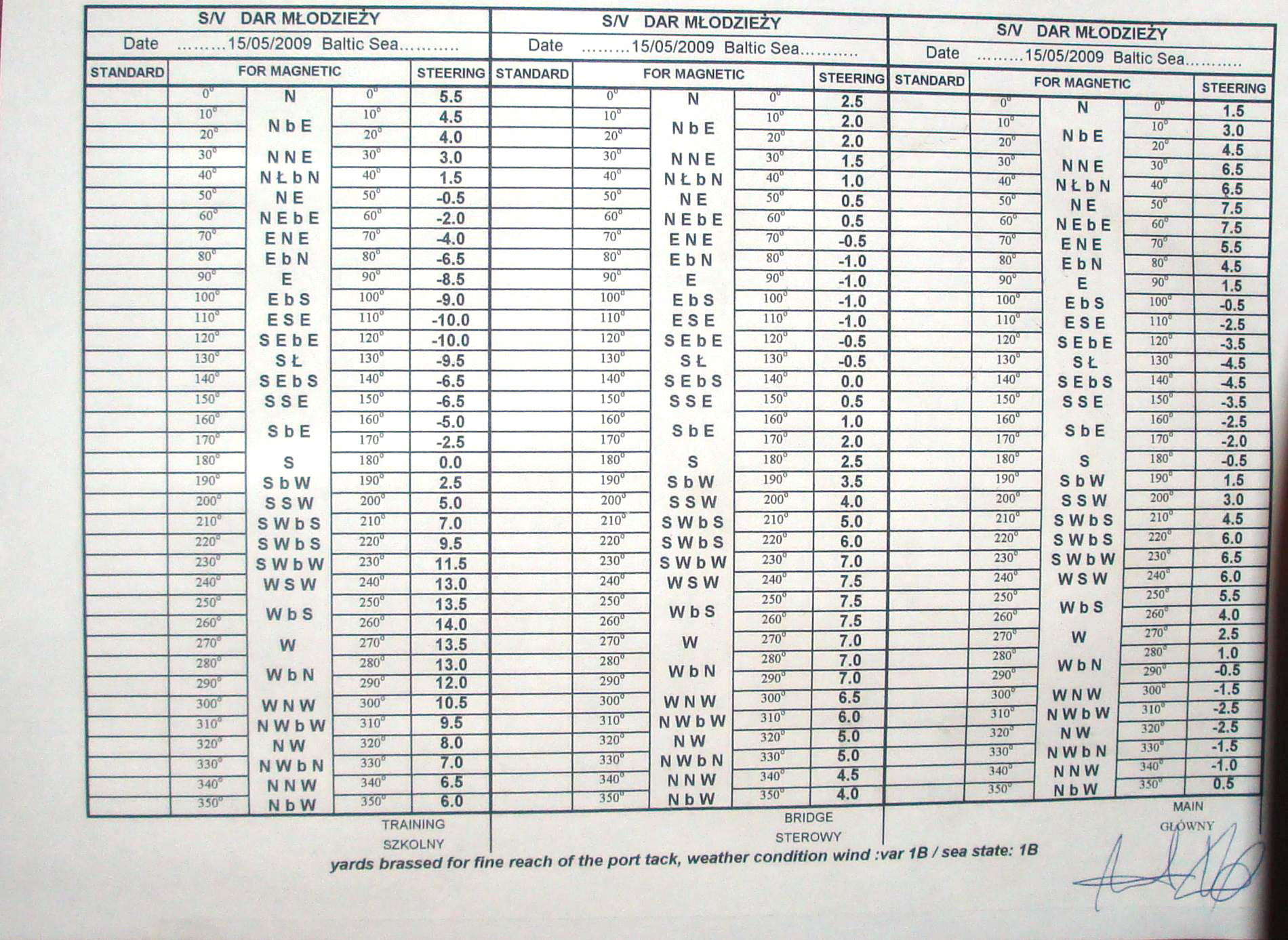 Magnetic compass deviation table for Polish tall ship Dar Młodzieży